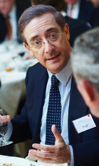 Spiros Latsis - Friends of Europe's State of Europe VIP roundtable and President's Dinner